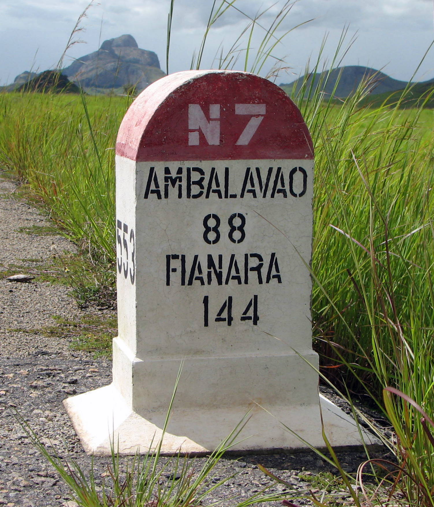 Madagascar milestone